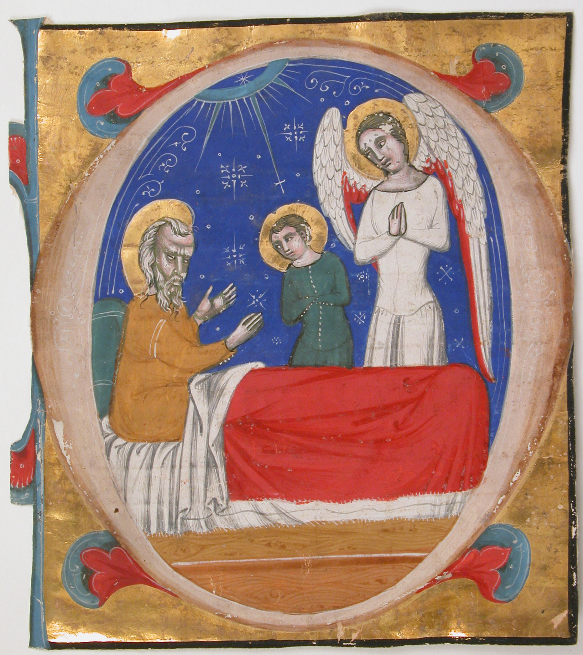 Italian; Antiphonary; Manuscript cutting; Manuscripts and Illuminations